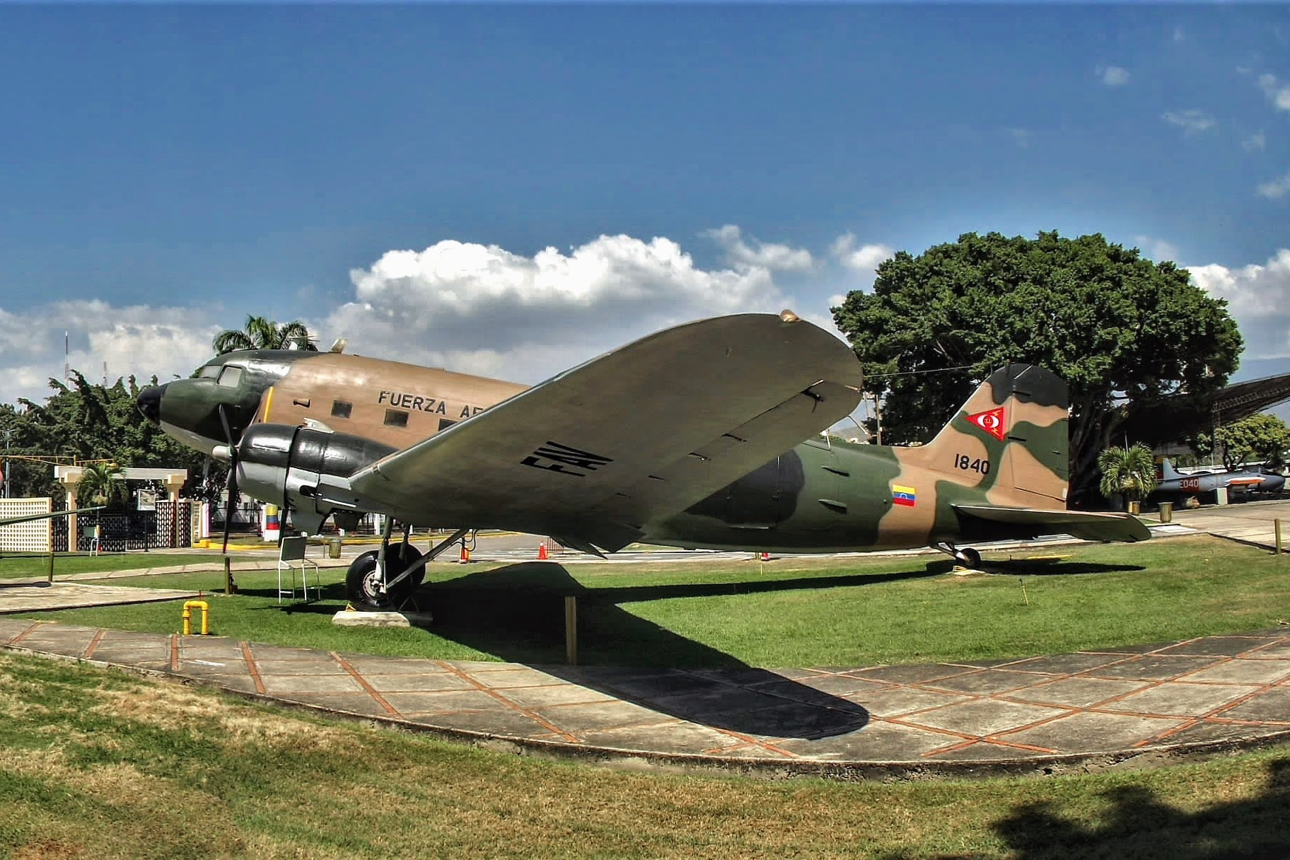 1840 - Douglas C-47A Skytrain of the Venezuelan Air Force exhibited at the Luis Hernán Paredes Aeronautical Museum in Maracay - Venezuela